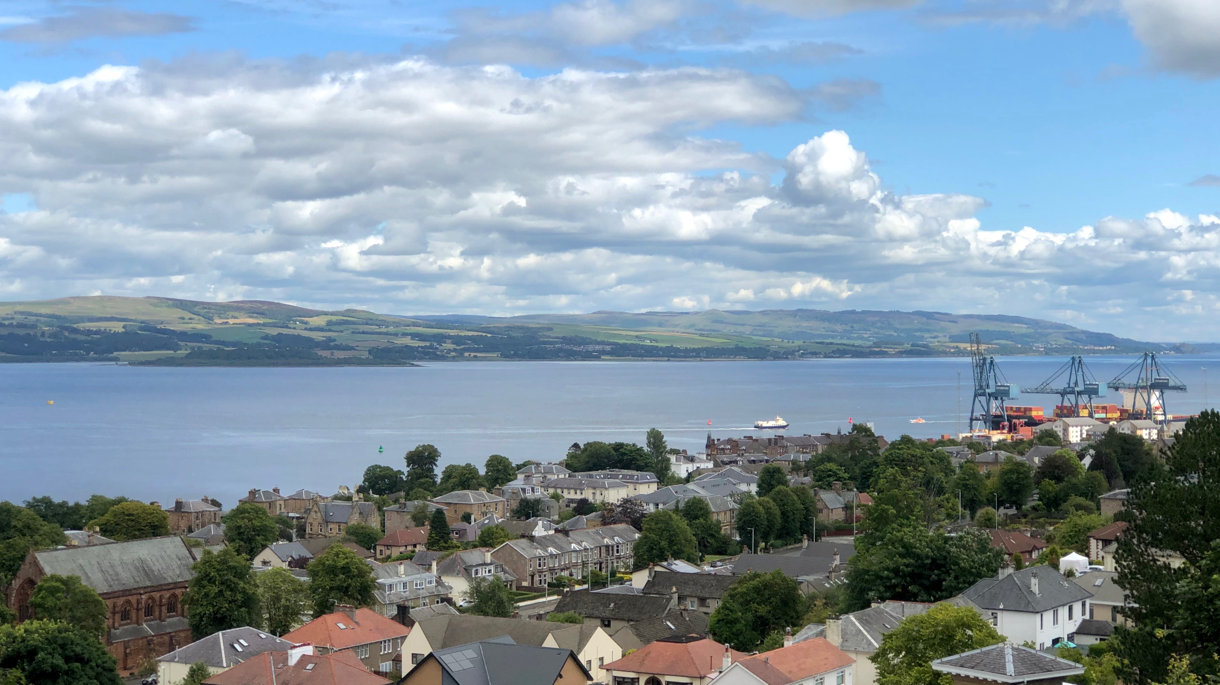 Across the Firth of Clyde, Ardmore Point peninsula projects from the north shore, to the west of Cardross. Near the south shore, MV Clyde Clipper cruise boat is just past No. 2 red can light buoy, marking the Tail of the Bank at the entrance to the River Clyde navigable channel. At Greenock Ocean Terminal, a container ship is berthed at the container cranes. No. 1 green conical light buoy can be seen to the left.